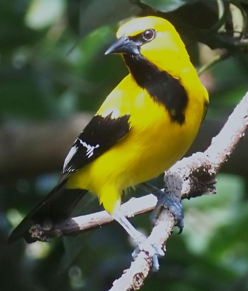 Picture of Yellow Oriole Icterus nigrogularis, which is a native of Trinidad & Tobago. It was taken today after viewing your "list of Birds of Trinidad & Tobago" webpage and I realized you did not have a good picture of this bird on the site.